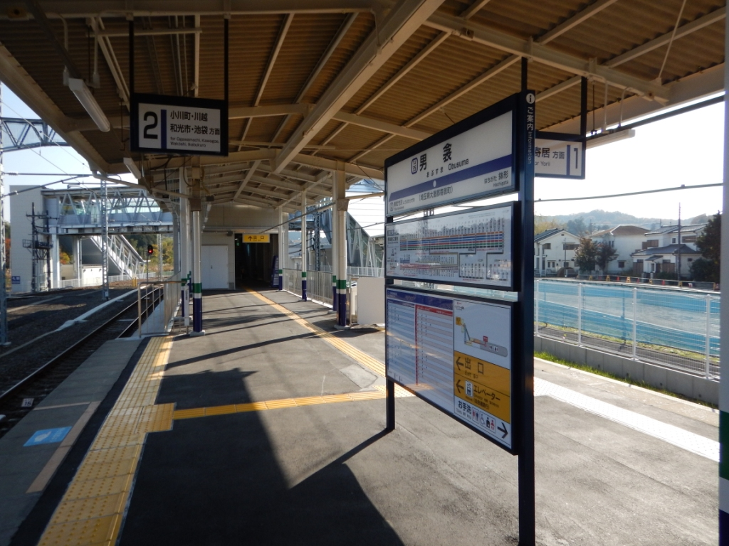 The platform at Obusuma Station on the Tobu Tojo Line in Saitama Prefecture, Japan